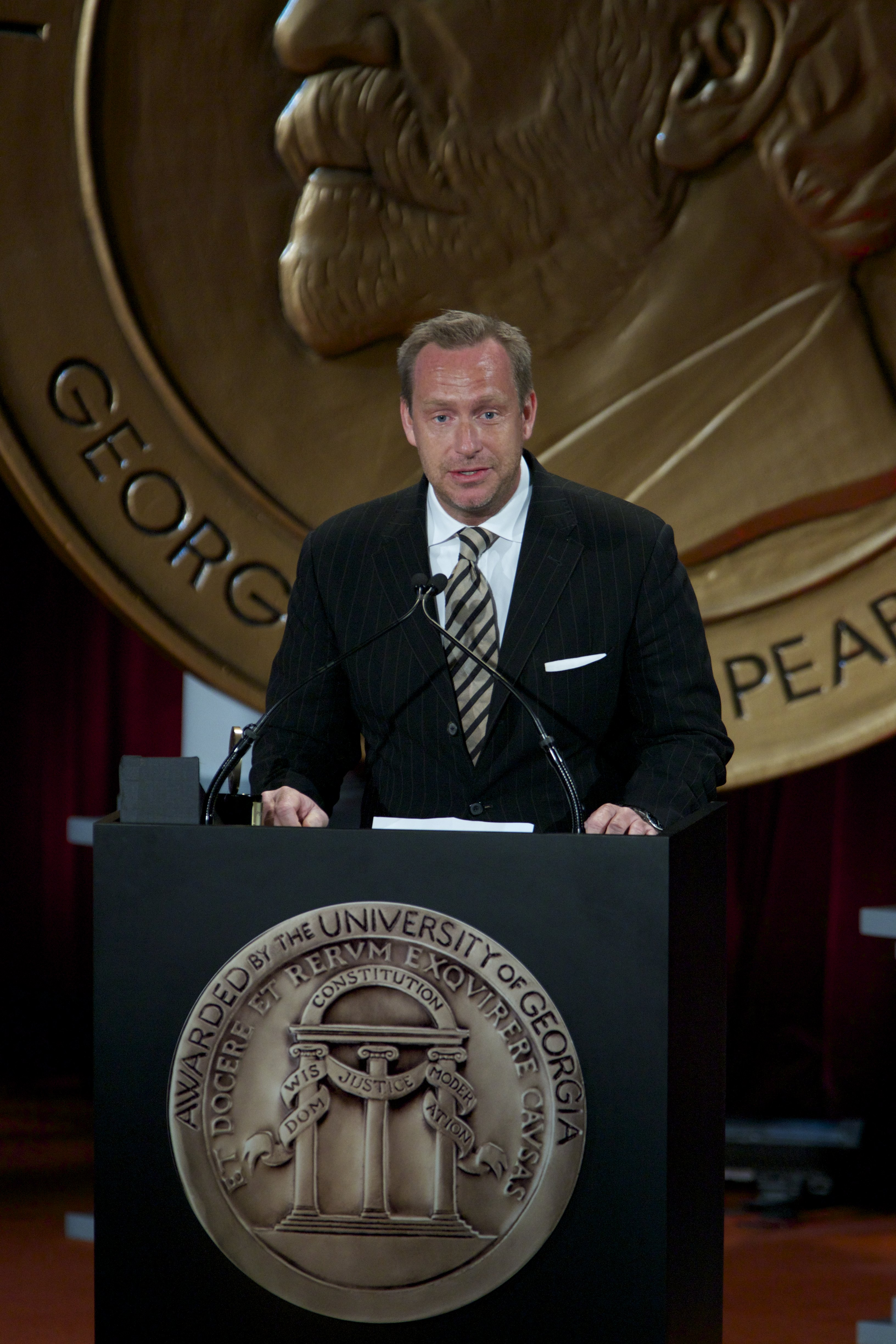 Adam Price accepts the Peabody Award for Borgen.